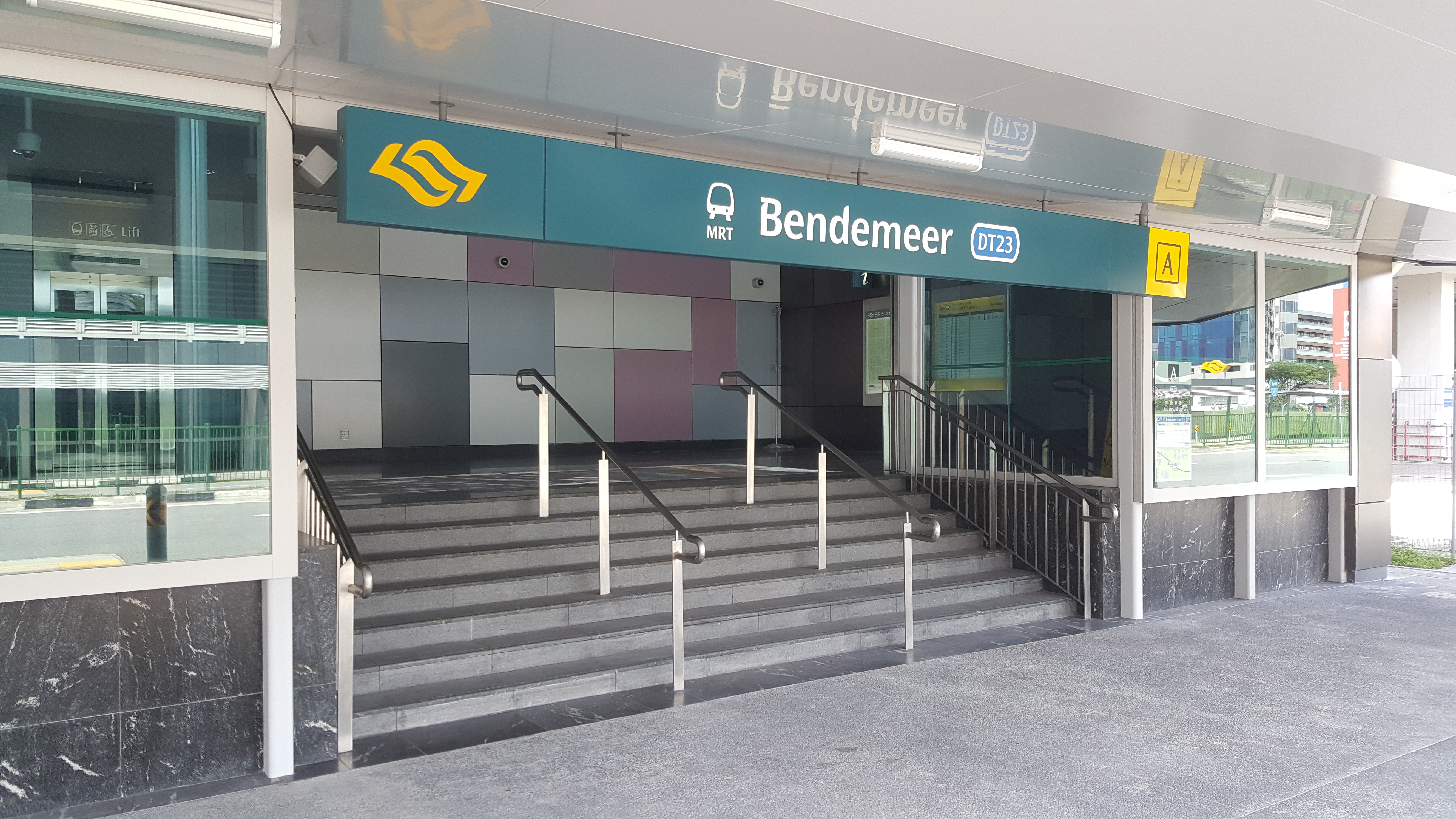 Bendemeer MRT Station Exit A